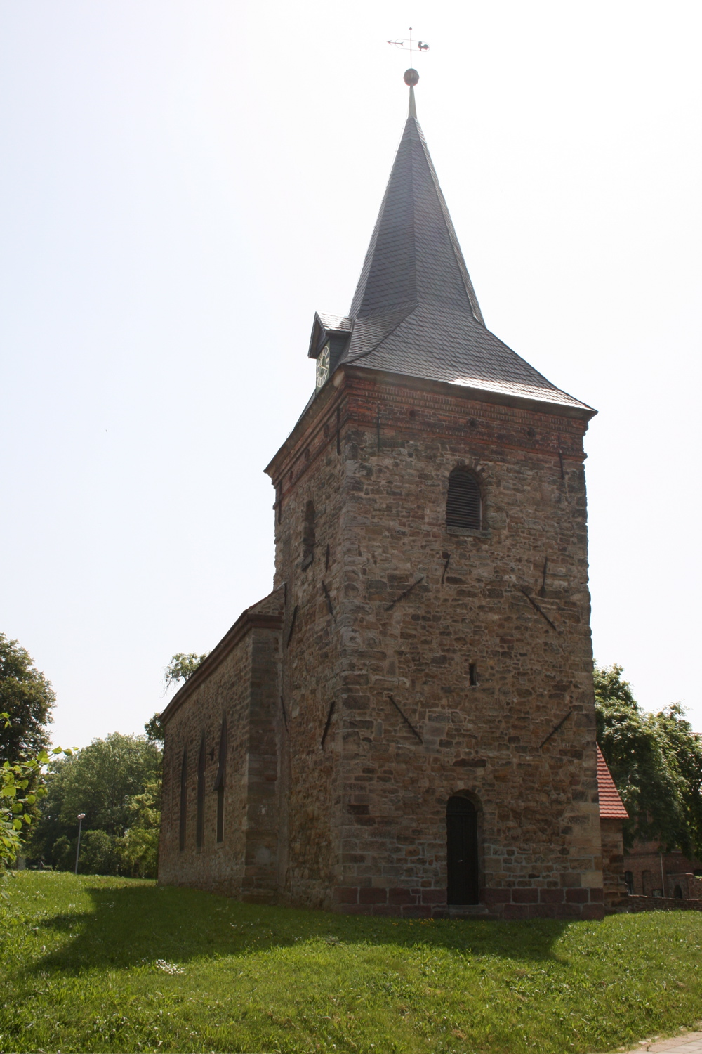 Volkstedt (Eisleben) St. Peter and Paul from West